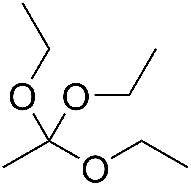 Chemical structure of ethyl orthoacetate created with ChemDraw